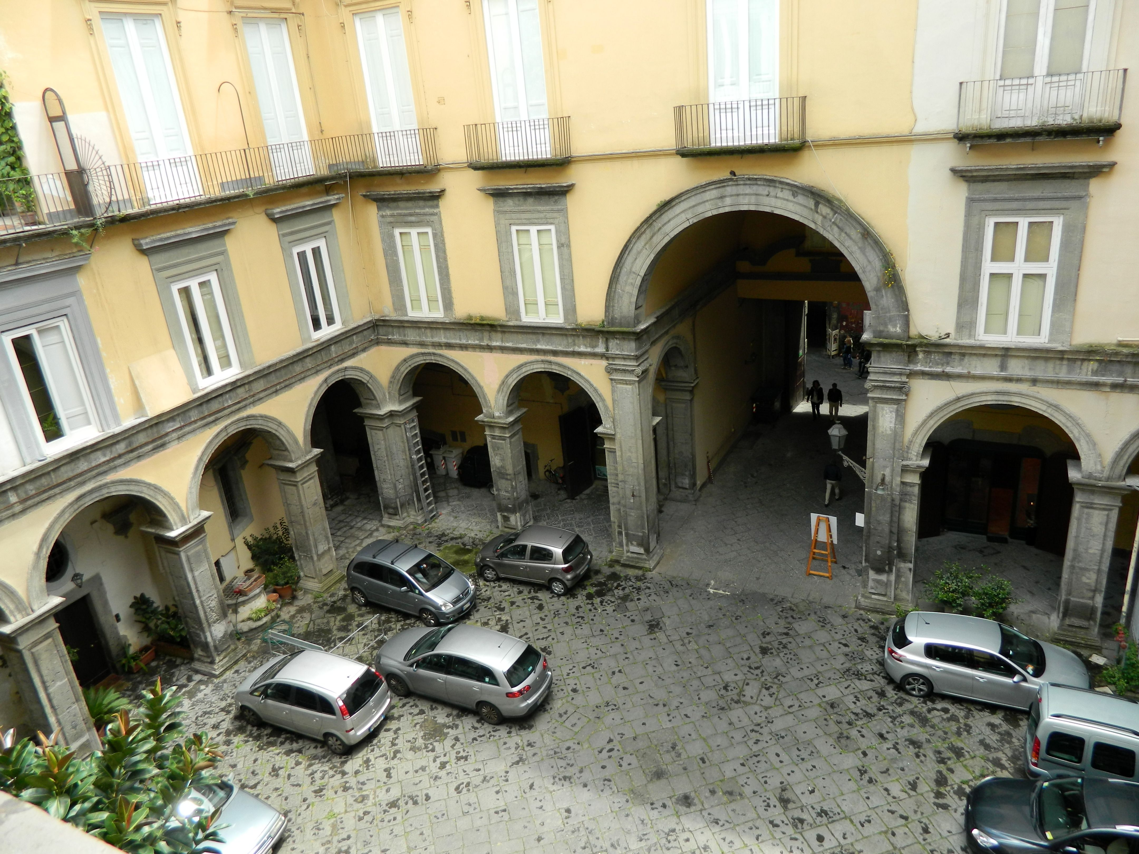 Palazzo Filomarino (Napoli) - Cortile interno